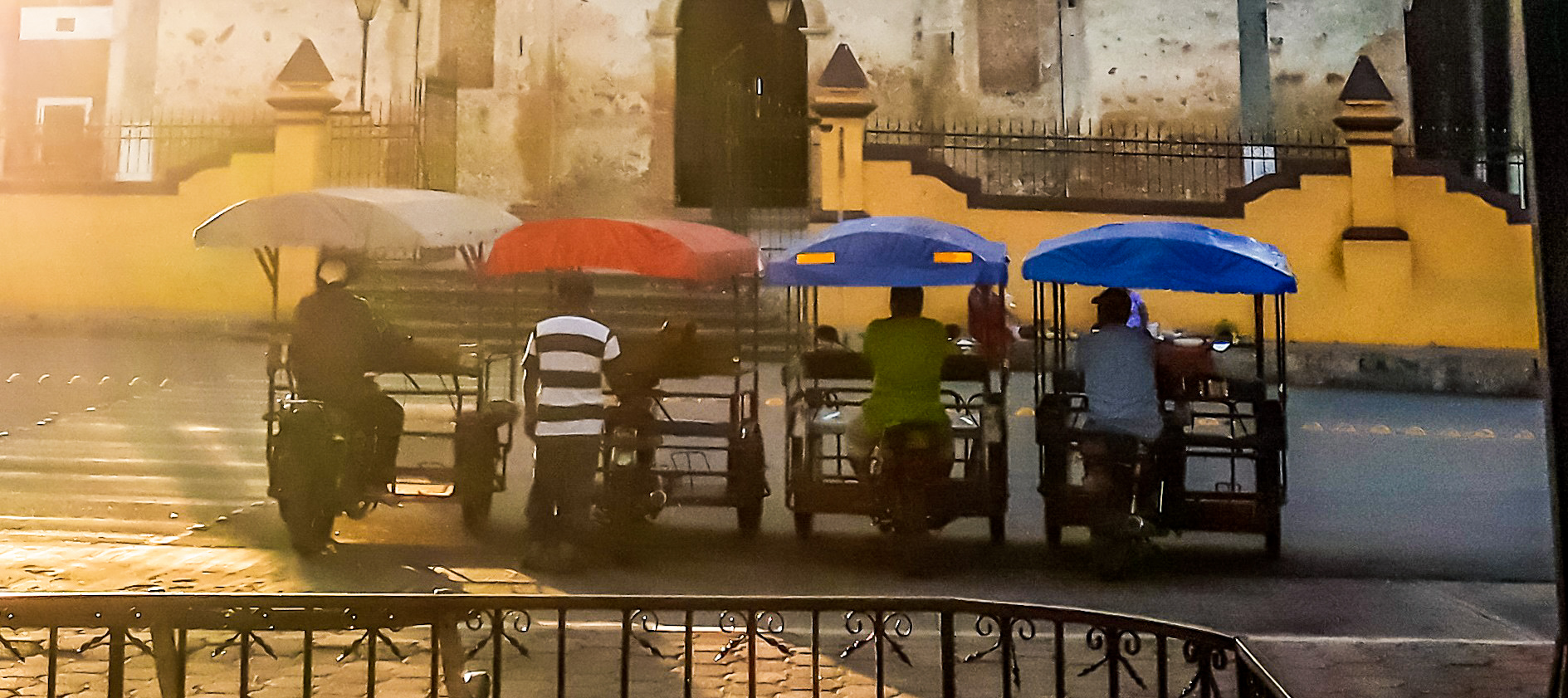 Tricitaxis in Espita, Yucatan.